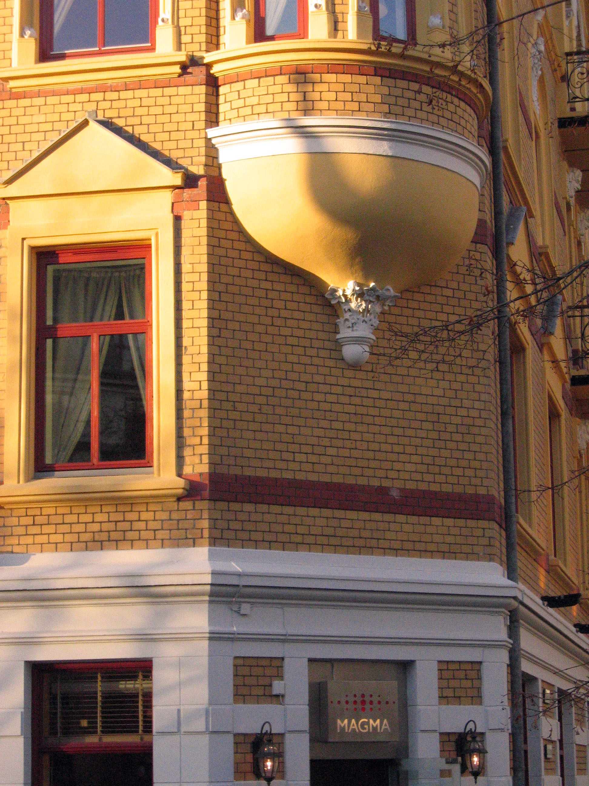 Magma restaurant, Oslo, Norway.